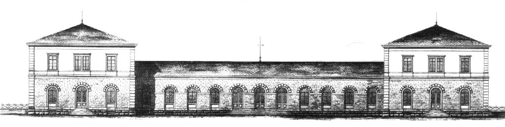 main building of Eppingen station, drawing of 1879.